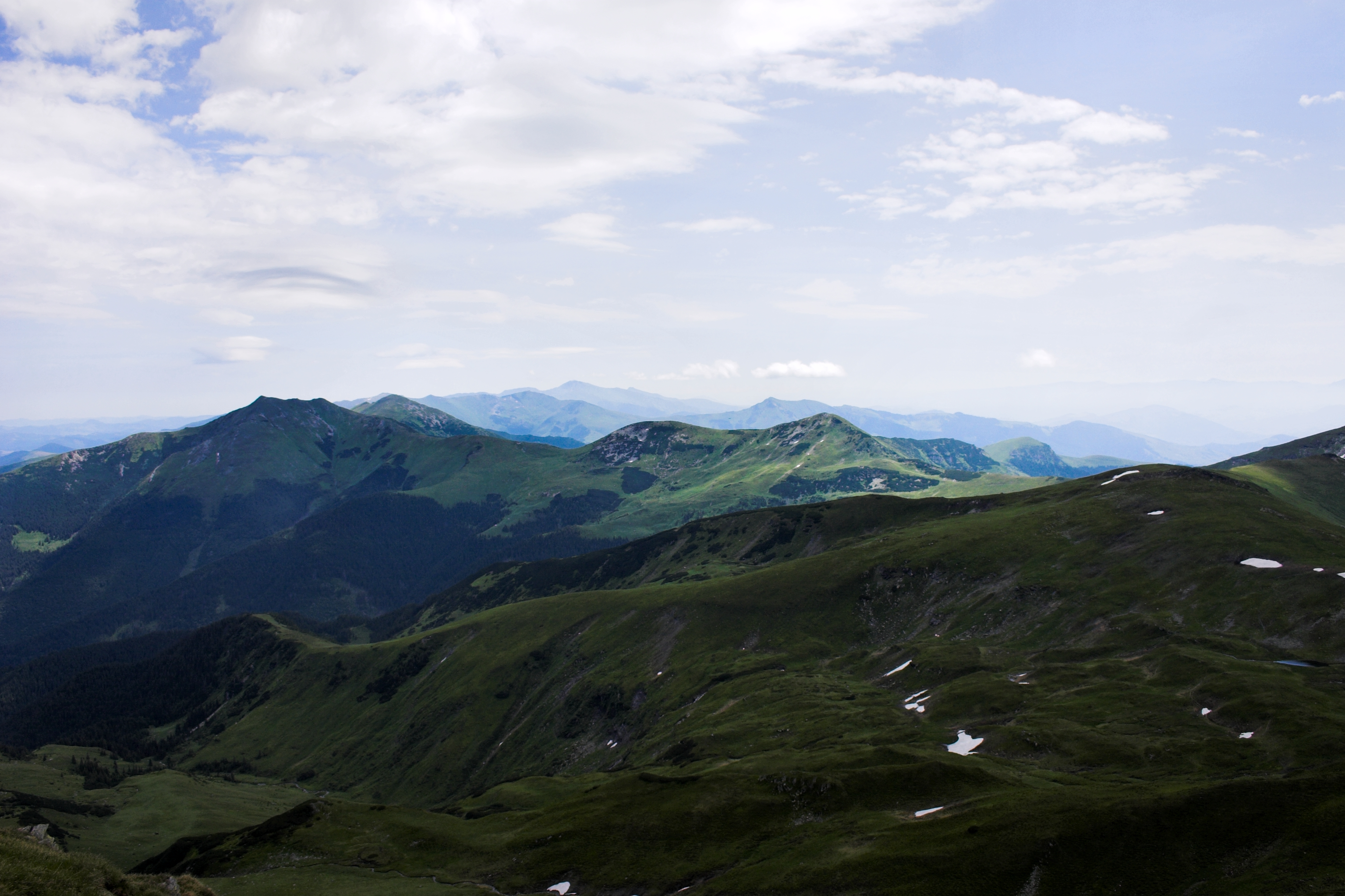 View to main edge of Rodna Mountains in Romania from top of its west part near Pietrosul Rodnei.